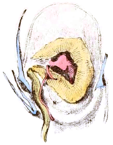 Drawing of position of renal organ (yellow), heart (red) and retractor muscles of Geomalacus maculosus viewed from below.